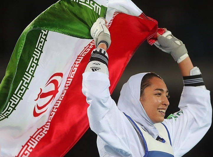 Kimia Alizade Teen Taekwondo Player Becomes First Iranian Female Olympic Medalist